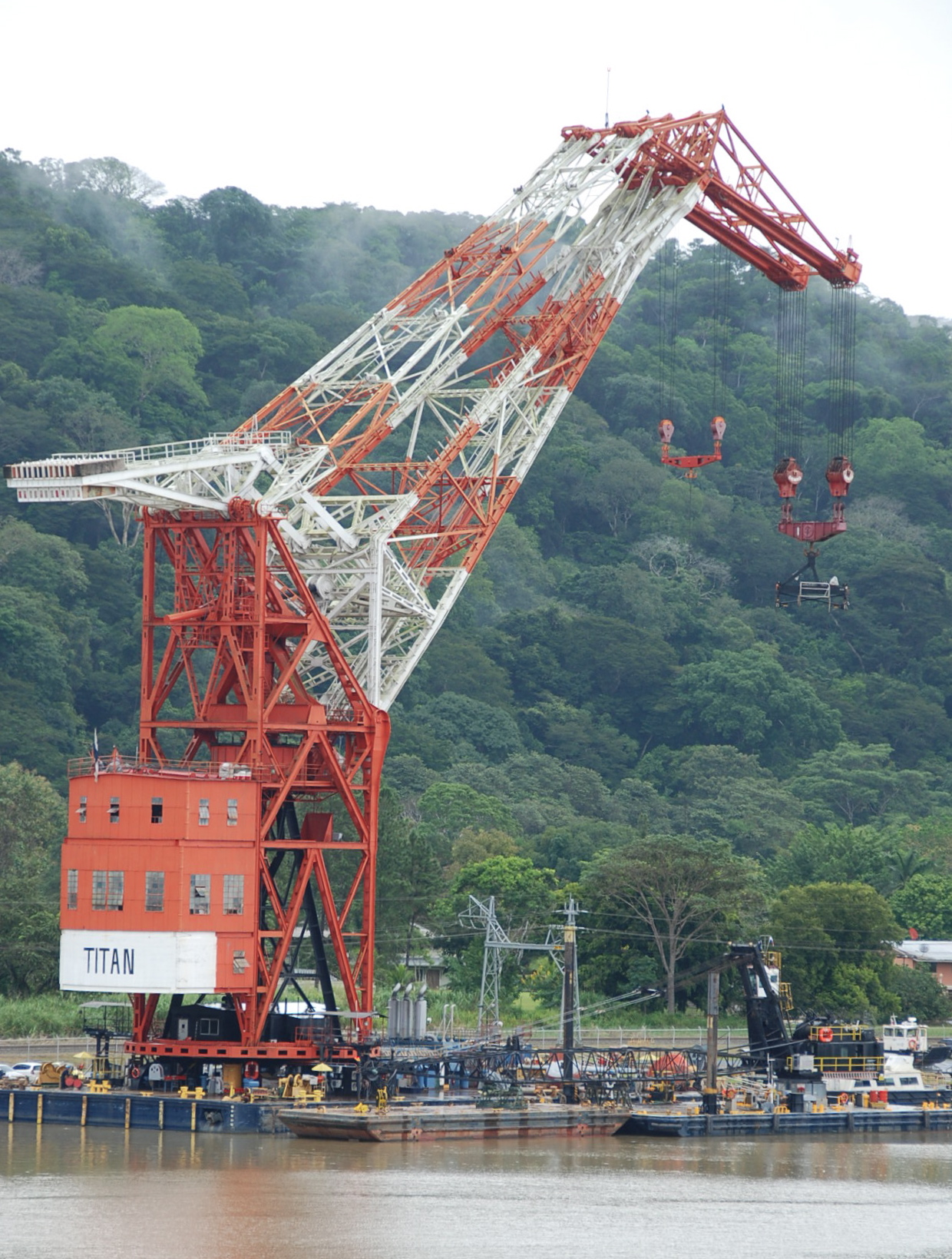 The Titan floating crane was built in Germany in 1941.